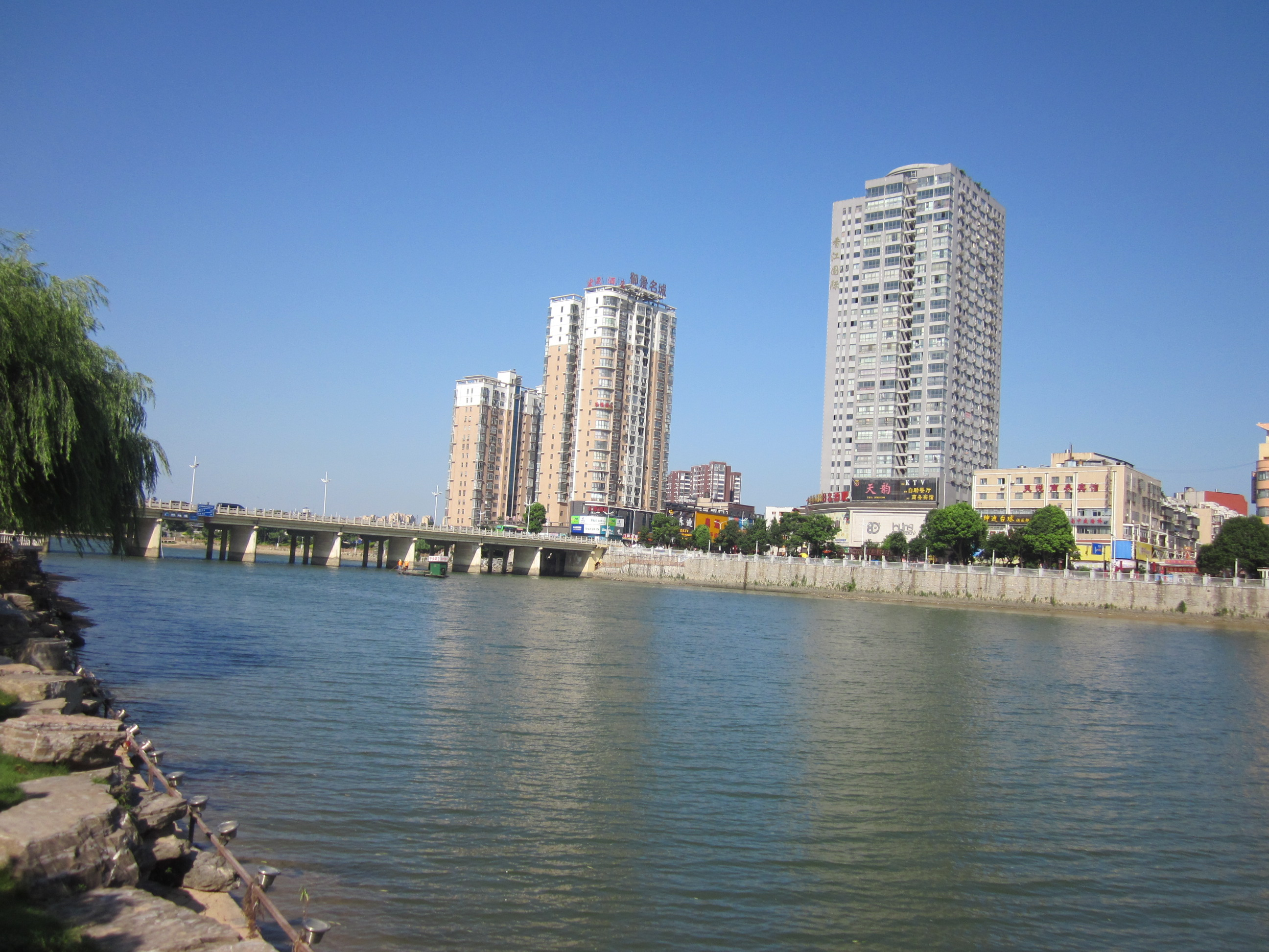 Wei River,Ning Xiang county